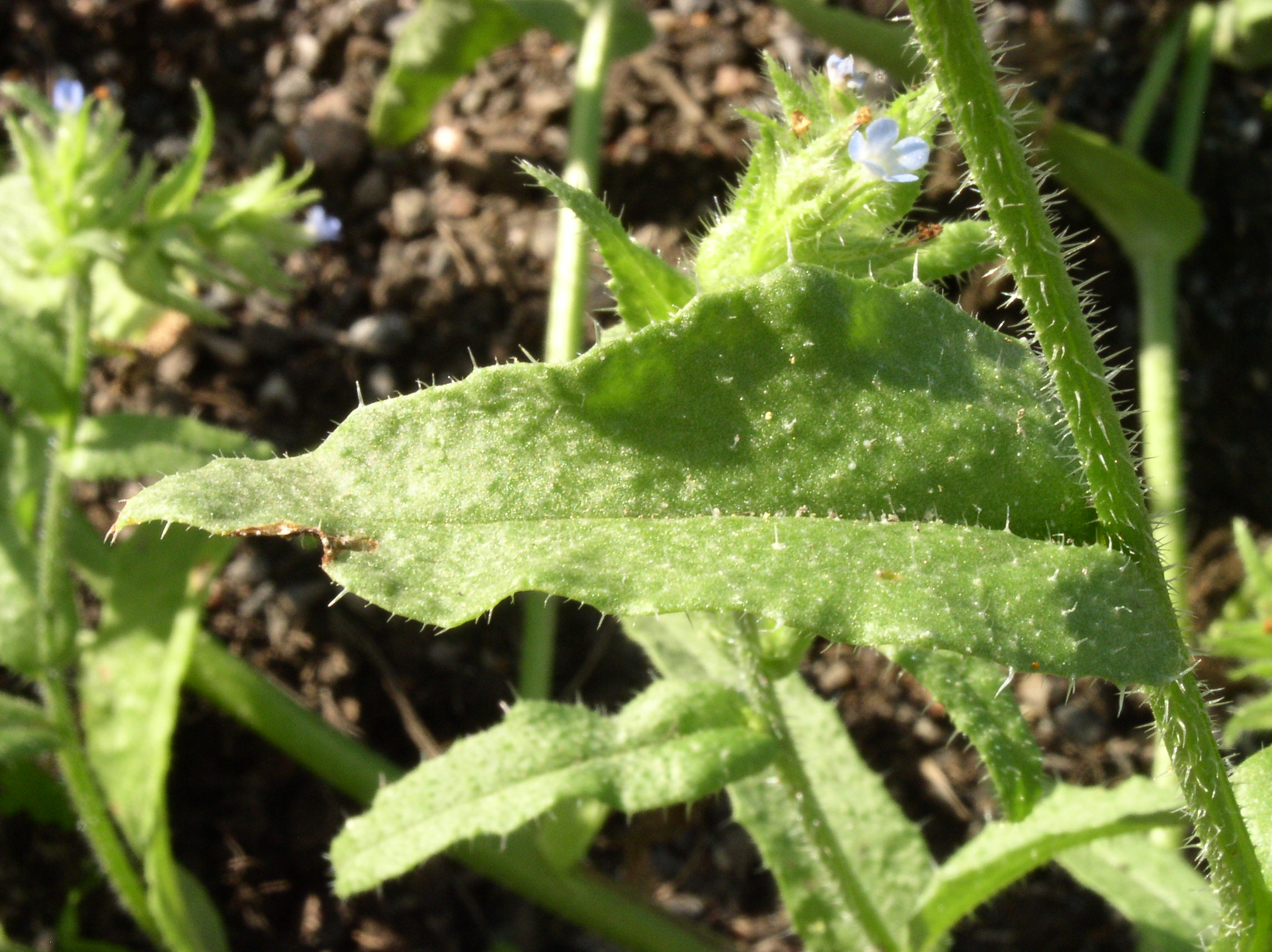 Anchusa arvensis leaf in Turku, Finland.